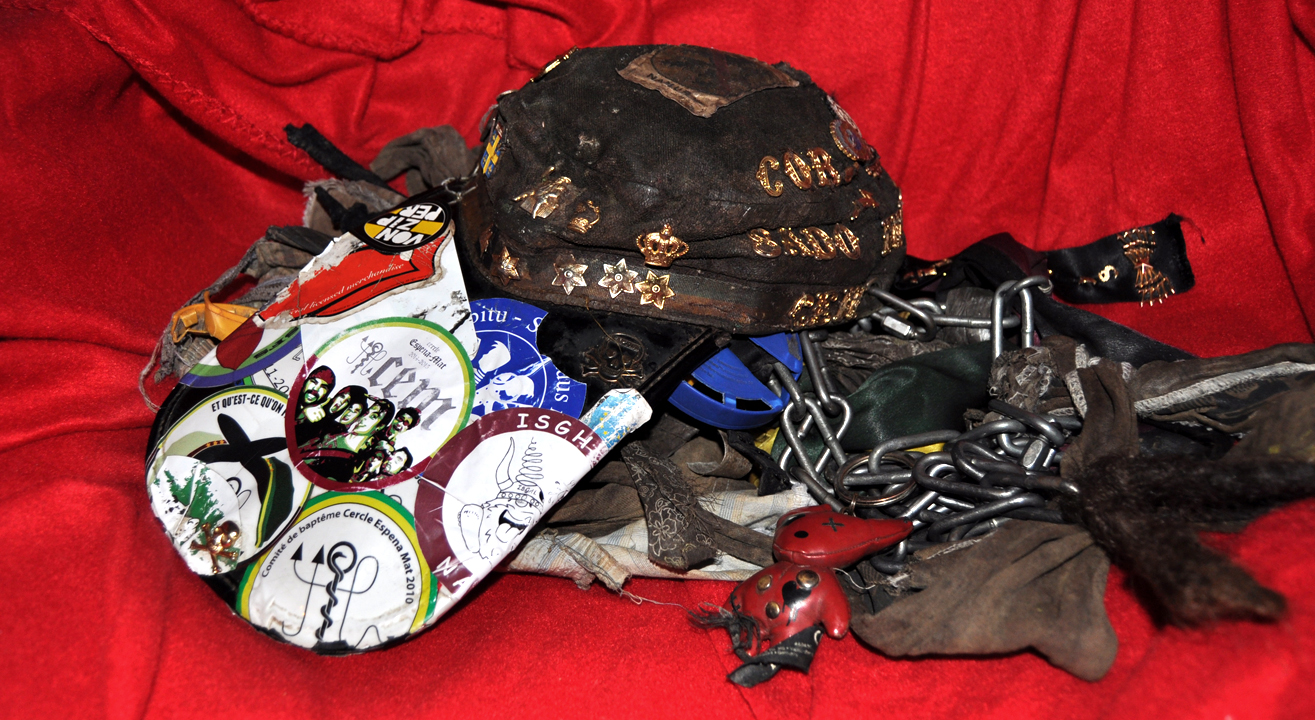 Student Hat